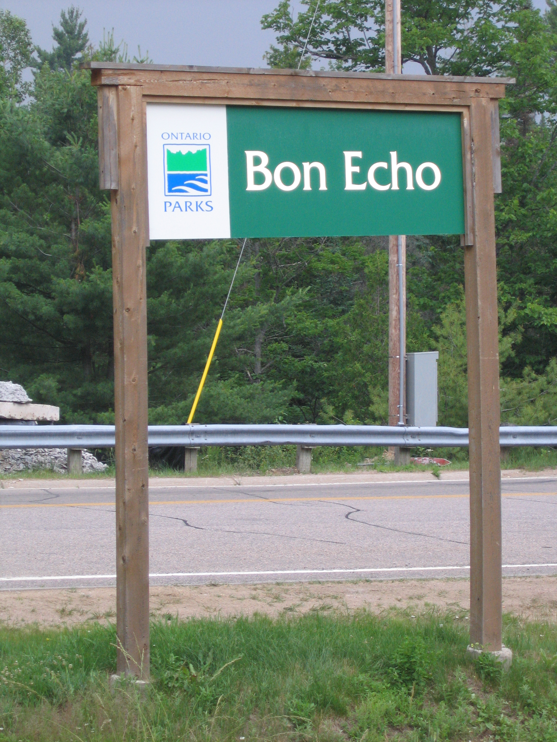 Bon Echo Provincial Park